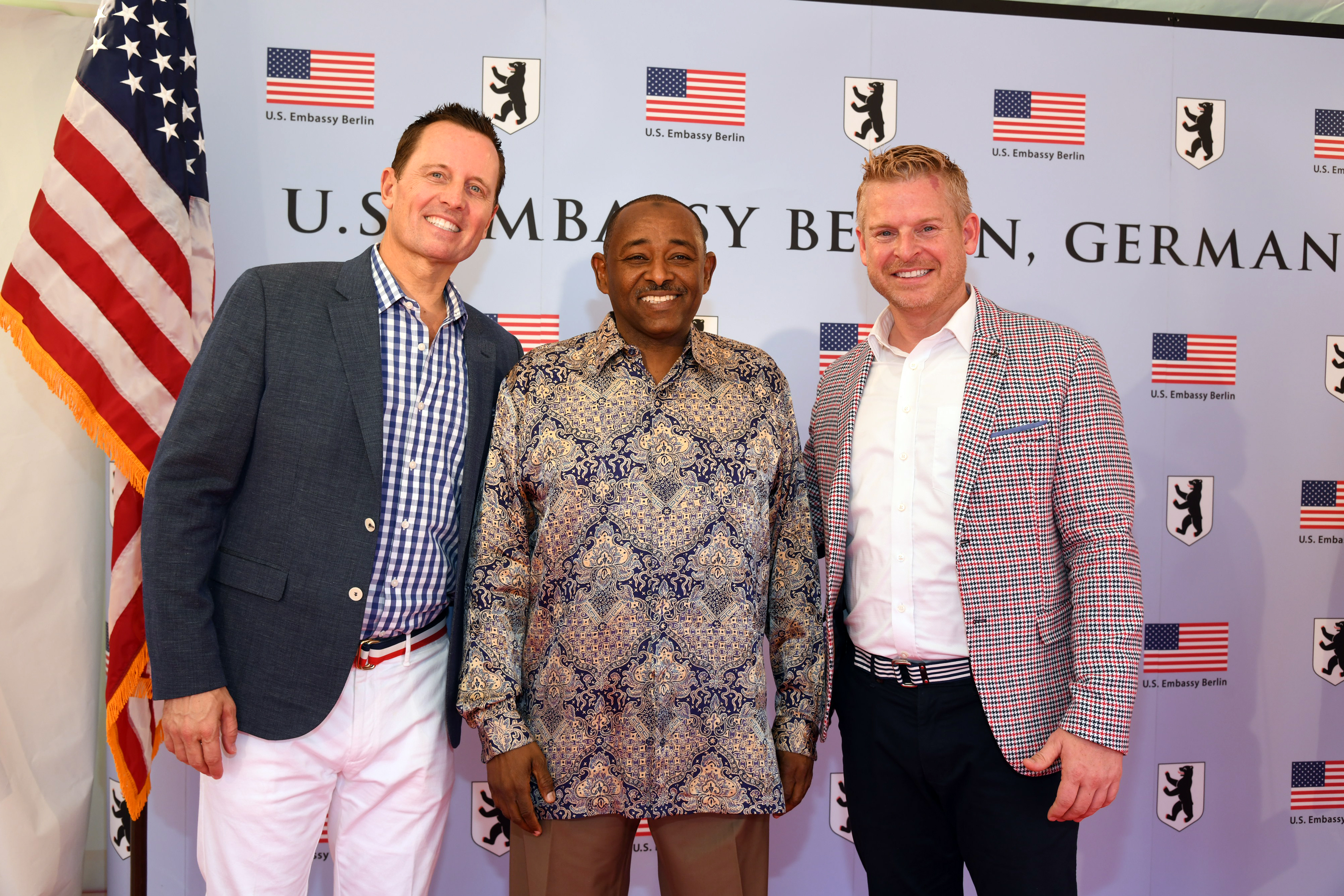 Richard Grenell, Badreldin Abdalla Mohamed Ahmed, & Matt Lashey, Sommerfest der US Botschaft Berlin, 4th of July 2018